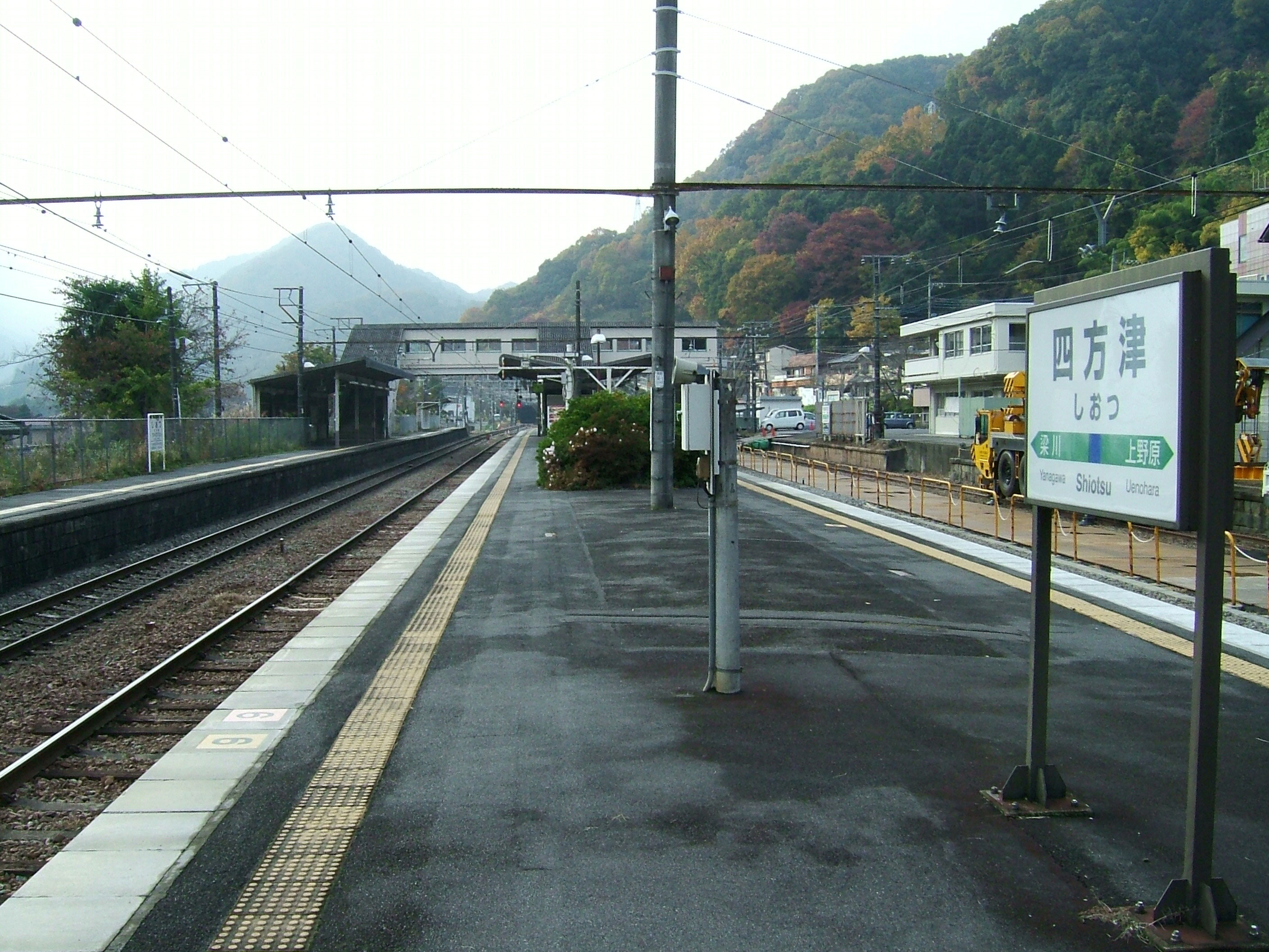 Shiotsu Station platform (East Japan Railway Chūō Main Line)